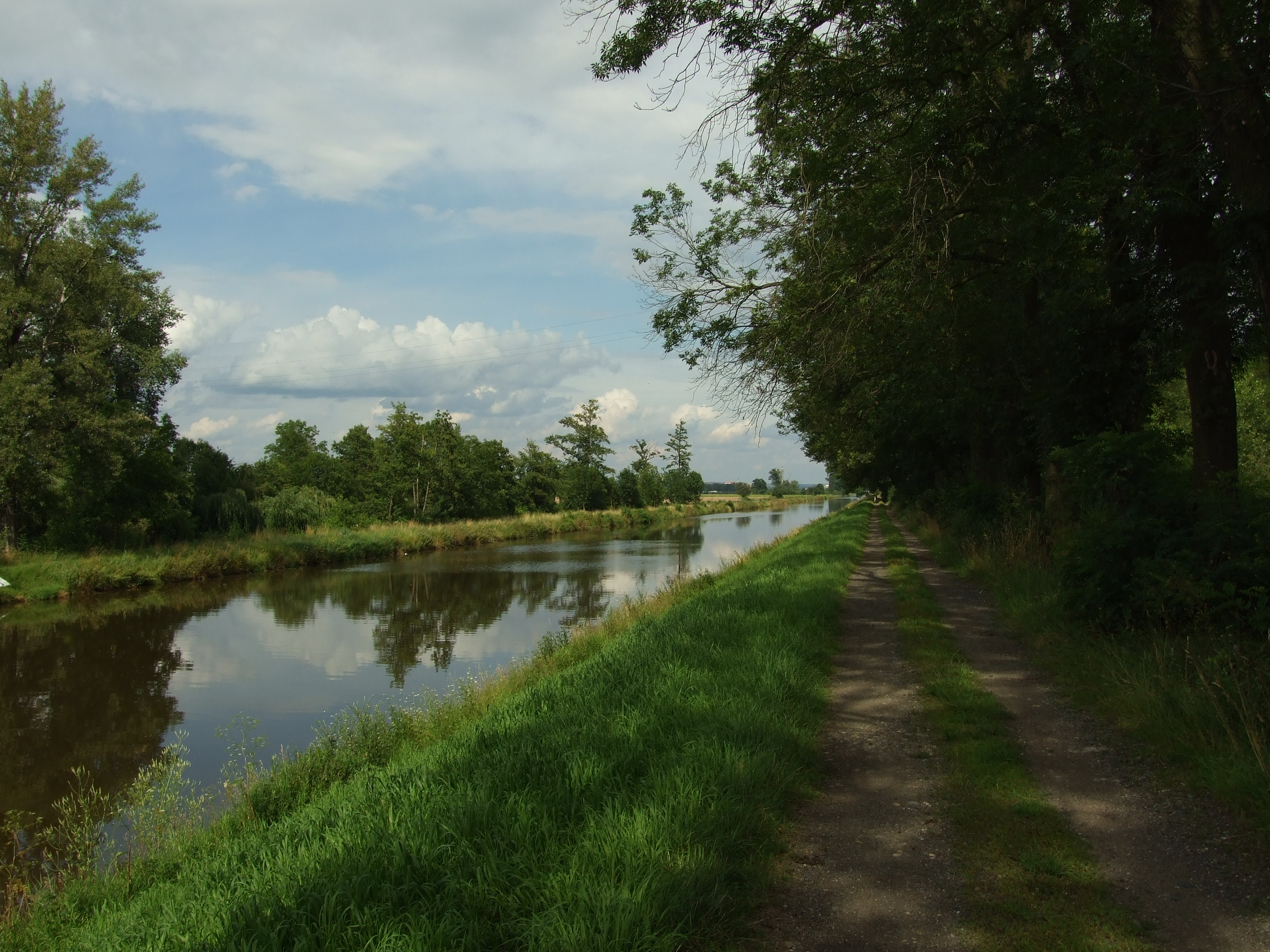 Vraňany-Hořín canal near Vraňany, Central Bohemian Region, CZhelp